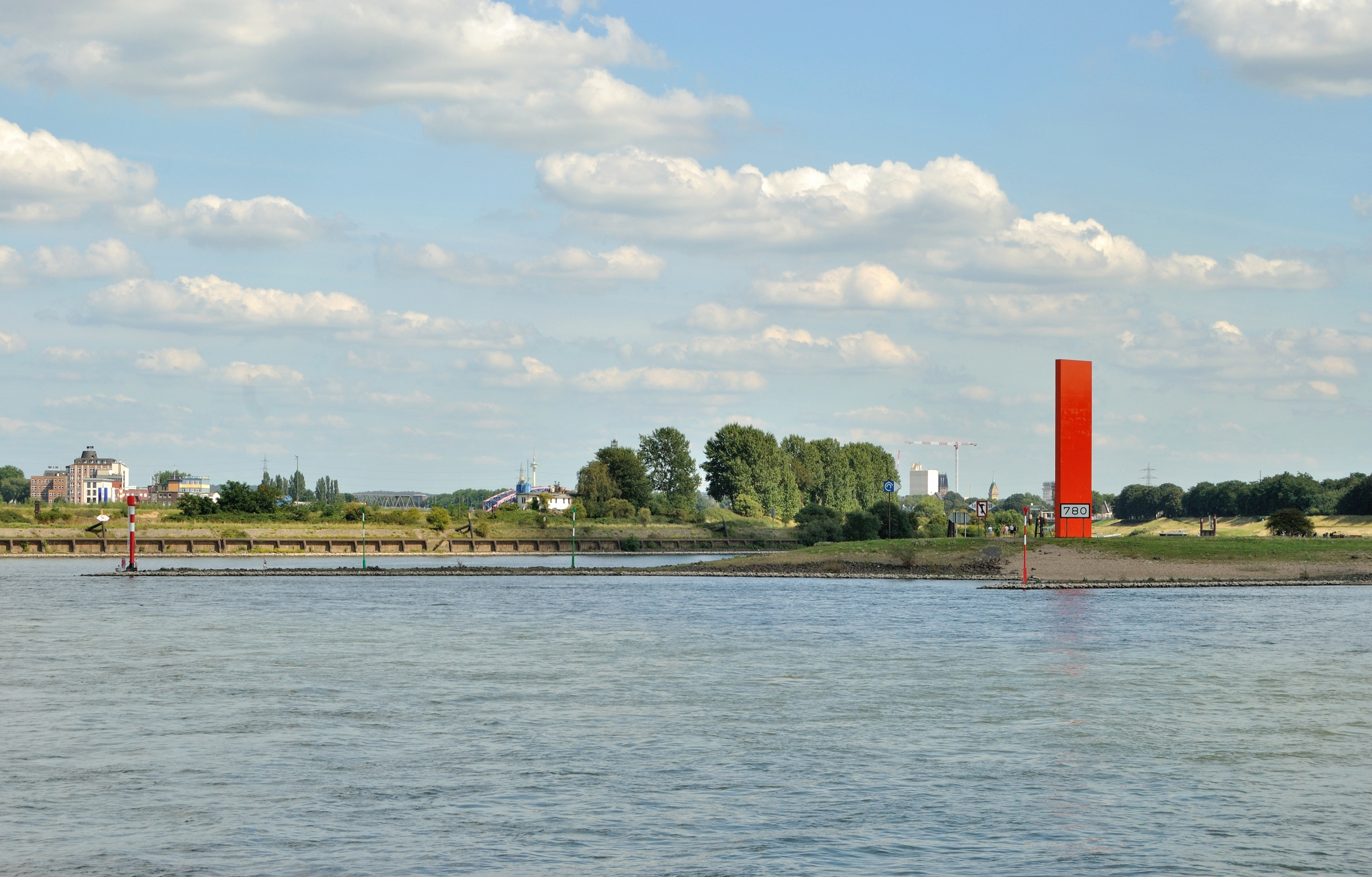 Duisburg (North Rhine-Westphalia, Germany) – sculpture Rhine Orange (by Lutz Fritsch in 1992) at the mouth of the RuhrThis photograph was taken with a Nikon D3000